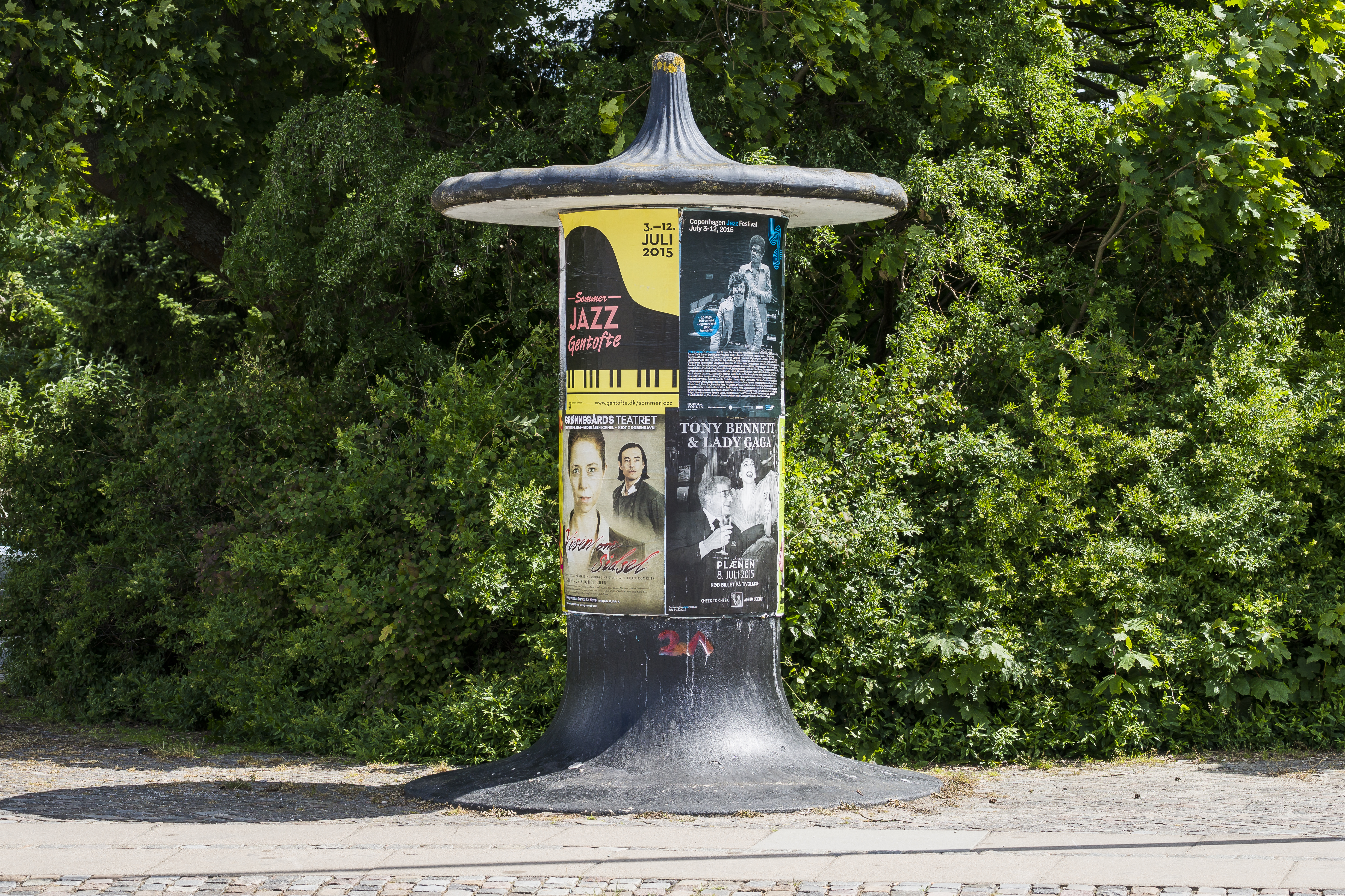 Advertising colum by Knud V. Engelhardt in the danish municipality of Gentofte, north of Copenhagen. These were designed in 1923 and are still in use.